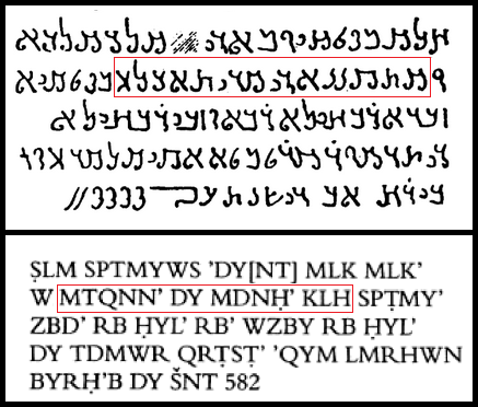 A dedication for Odaenathus from Palmyra. It translate as : "To Septimius Odaenathus King of Kings and Corrector of the whole region. The Septimii Zabda, commander of the great army, and Zabbai, commander of the army of Tadmur, great men, dedicated this for their lord, in the month of Ab of the year 582" (August AD 271). [1][2]